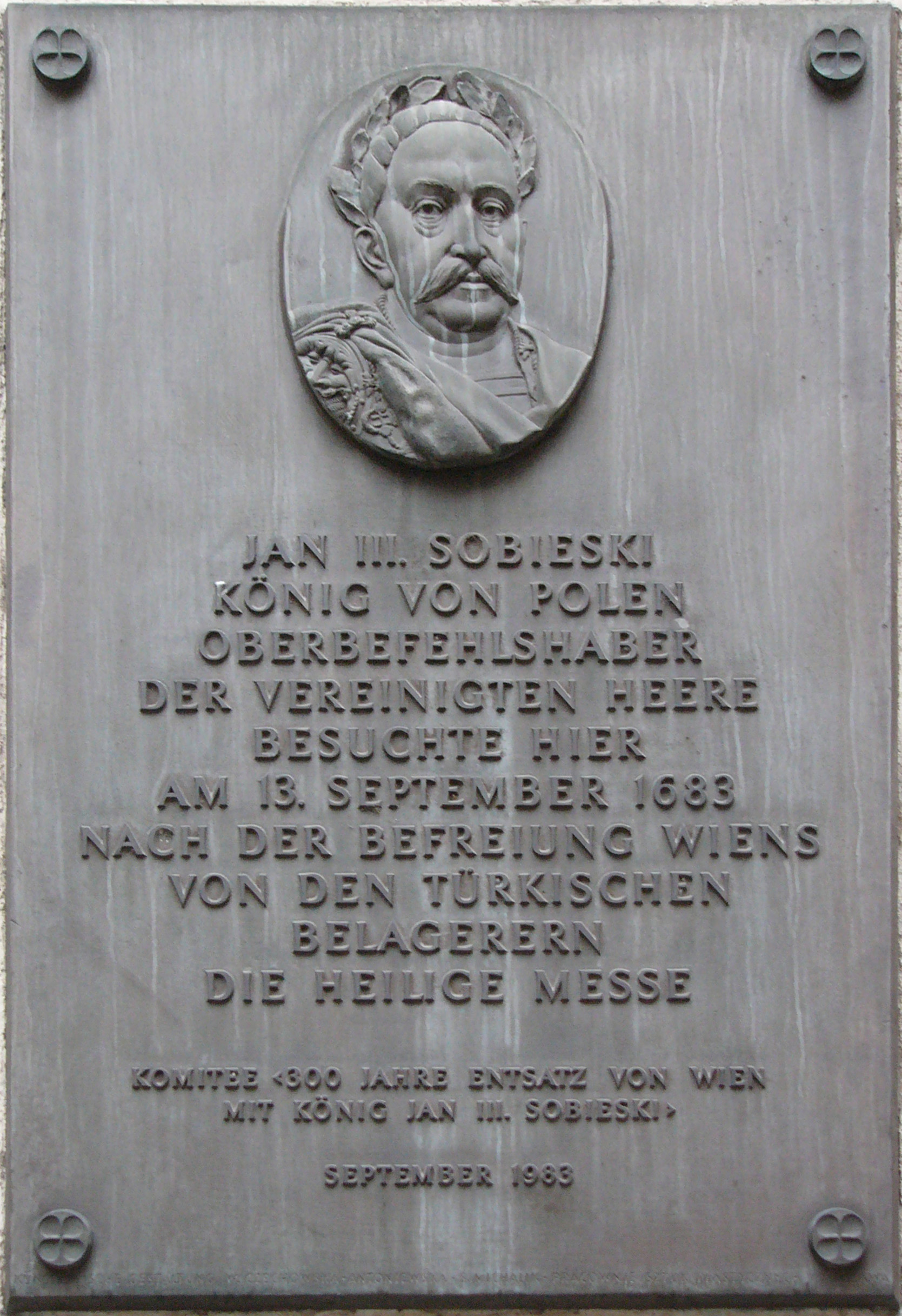 memorial plaque devoted to John III of Poland in Wien (Austria). Augustinerstraße 3, Augustinerkirche [1].